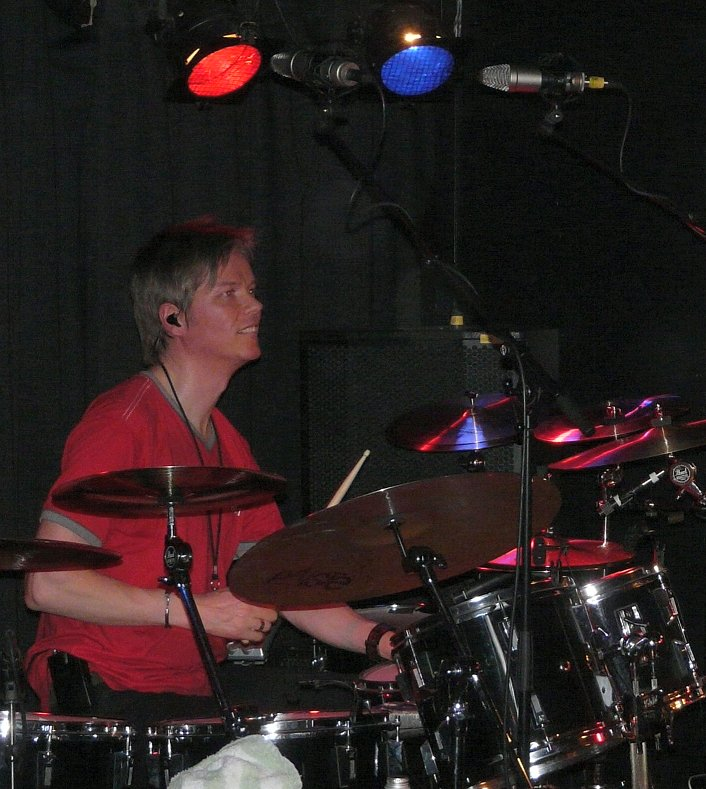 Gulli Briem playing in the Quasimodo Jazzclub in Berlin on 29th March 2010